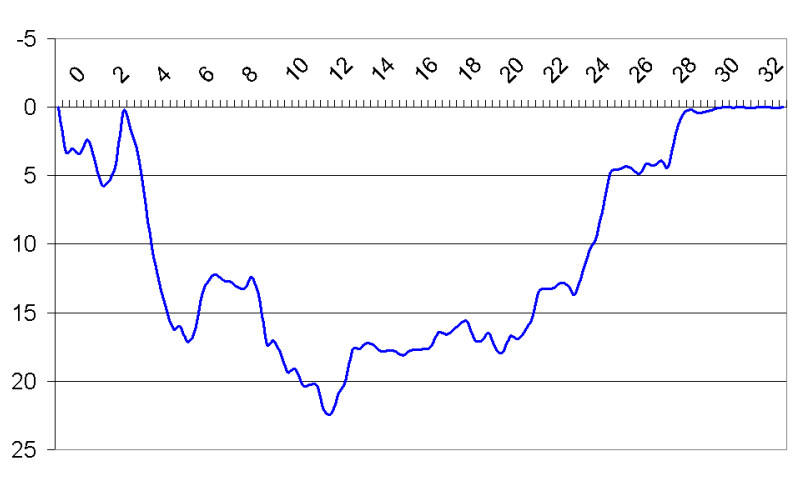 example of a scuba diving report (no real diving software used).